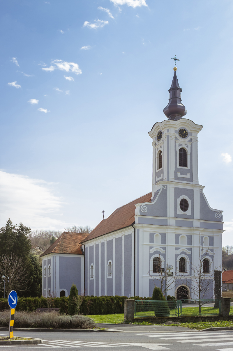 Orahovica